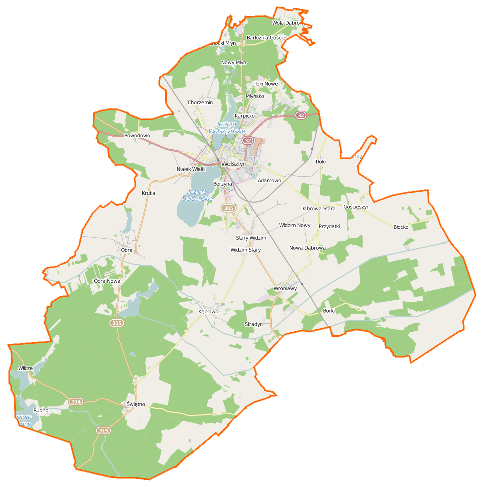 Map of Gmina Wolsztyn, Poland This map of Wolsztyn (gmina) was created from OpenStreetMap project data, collected by the community. This map may be incomplete, and may contain errors. Don't rely solely on it for navigation.